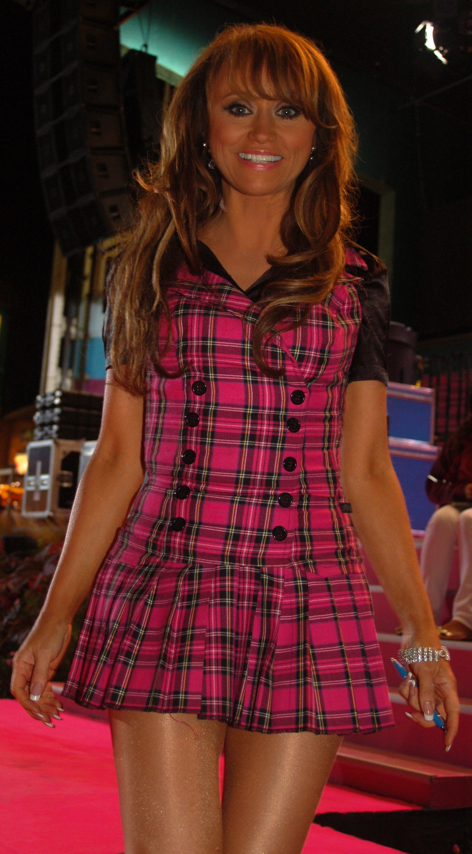 Nanne at Sommarkrysset, Gröna Lund